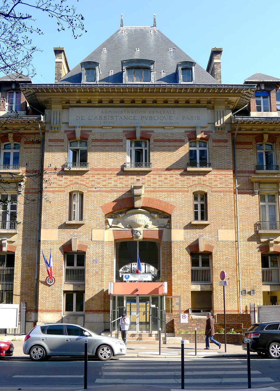 Cochin hospital - Paris